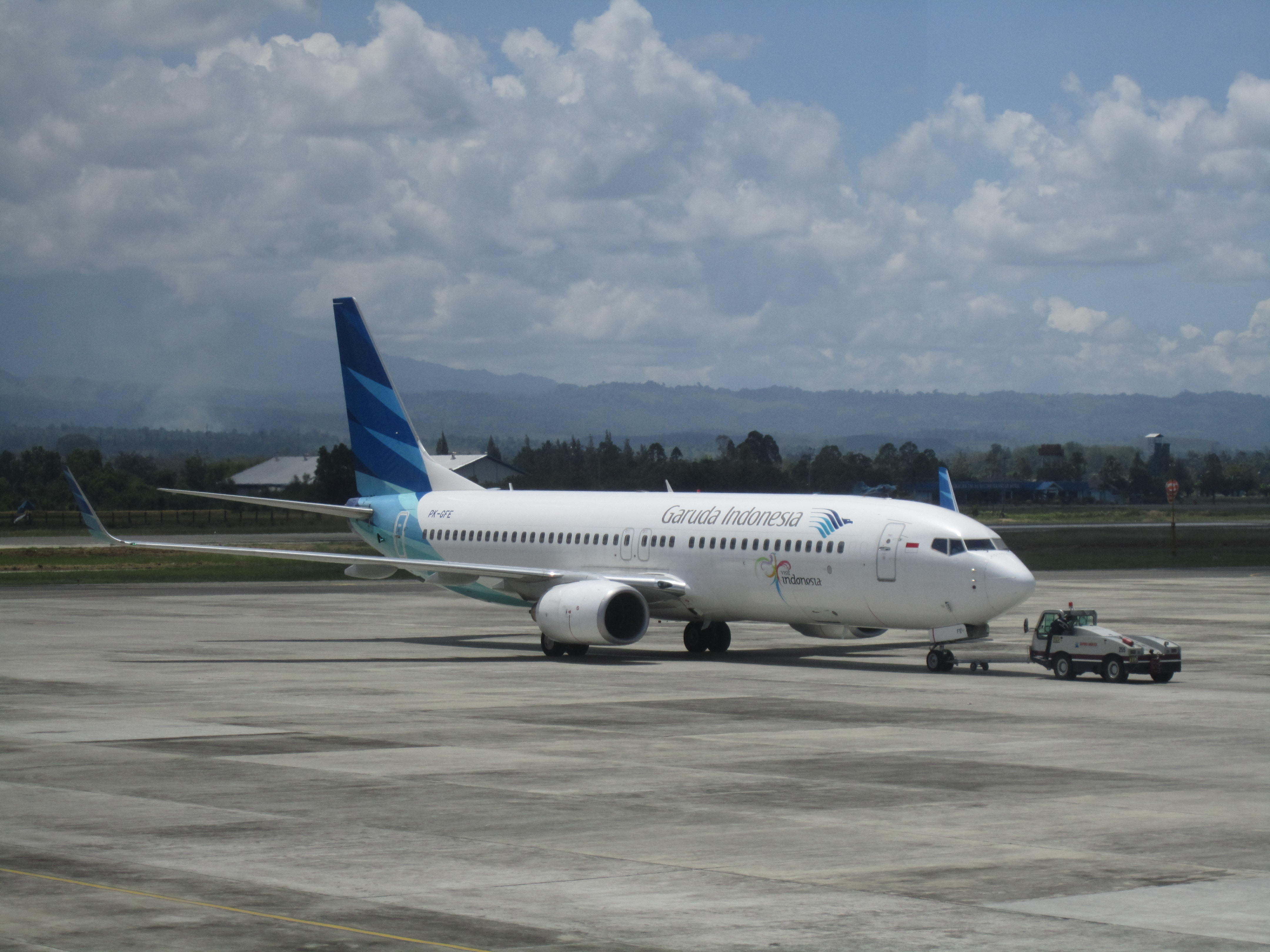 A Garuda Indonesia Boeing 737-800 being pushed onto the tarmac at the Sultan Iskandar Muda International Airport, Banda Aceh, Indonesia